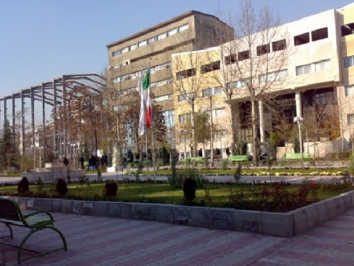 Campus copy